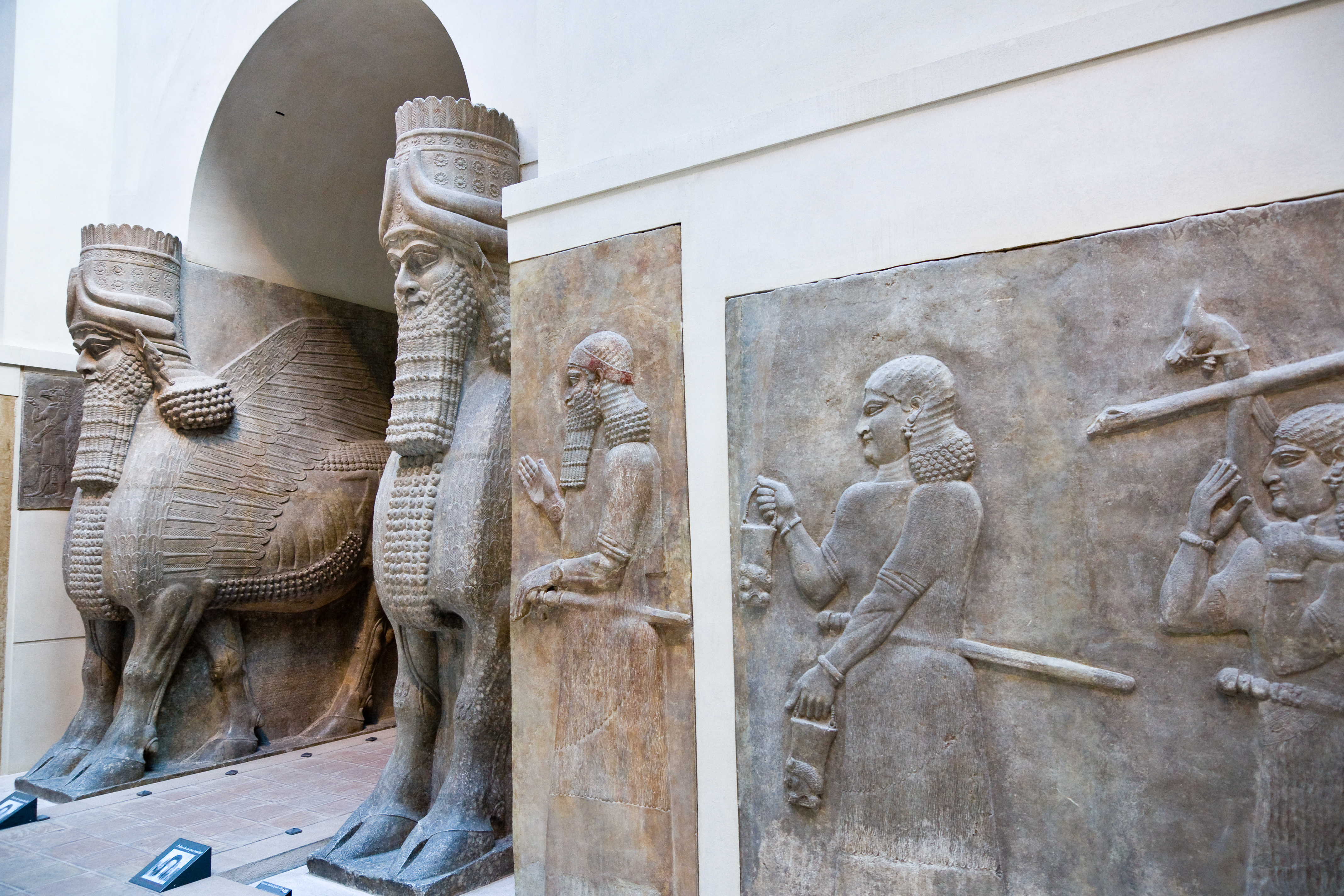 Louvre-Khorsabad-Human Headed Winged Bulls Dignitary-AO 19875 Servants carrying a wheeled throne-AO 19882